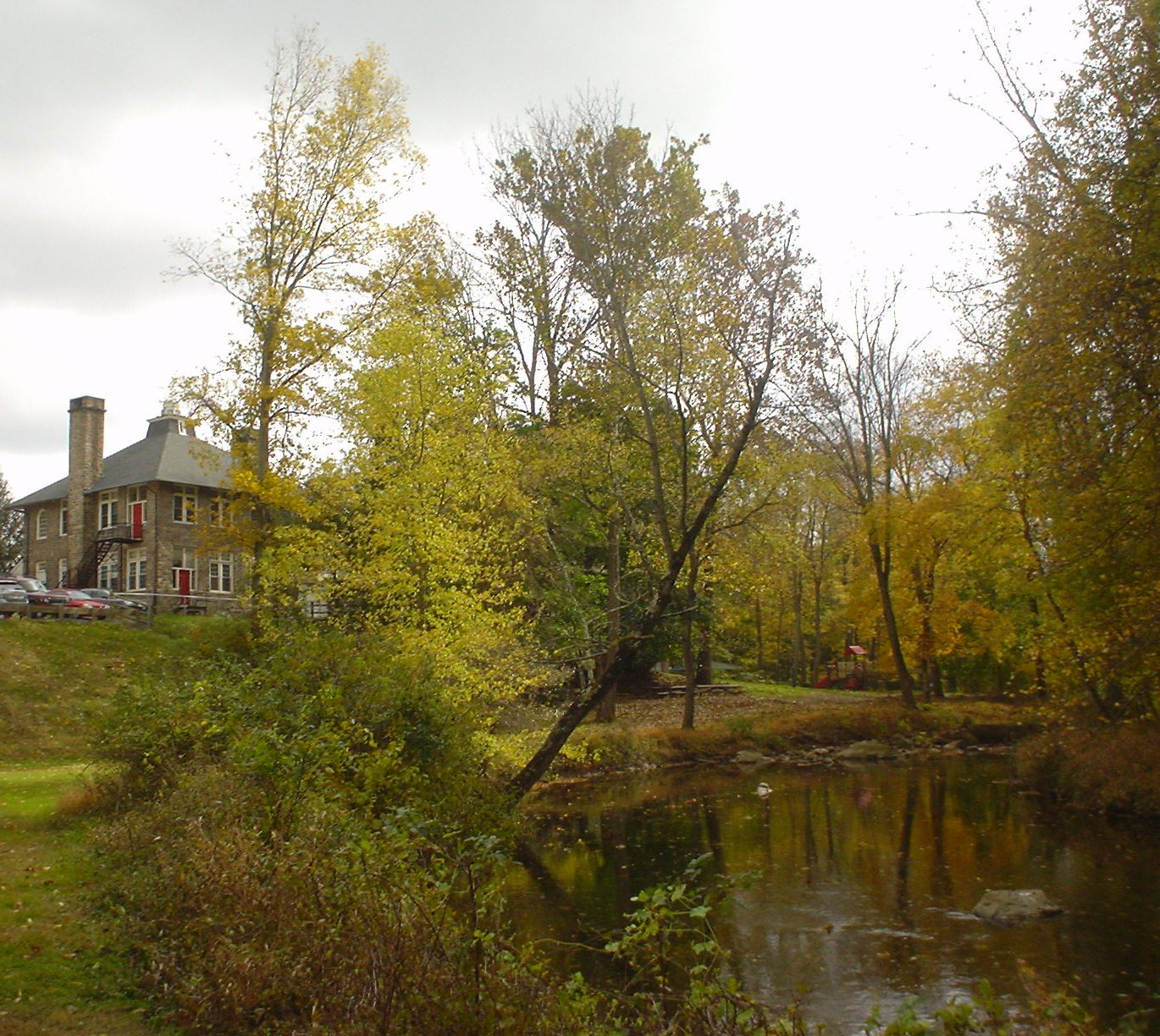 Chester Creek in Thornbury Township, Delaware County, PA. Building is the "Malvern School" This is my own work and I donate it to the Public Domain.